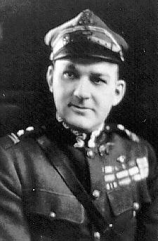 A USAF image of Cedric E. Fauntleroy (date unknown) original caption: "Cedric E. Fauntleroy in his Polish Air Service uniform. (U.S. Air Force photo)"